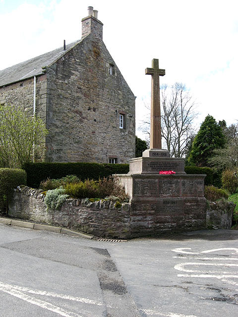 Denholm War Memorial At the southwest end of the village.